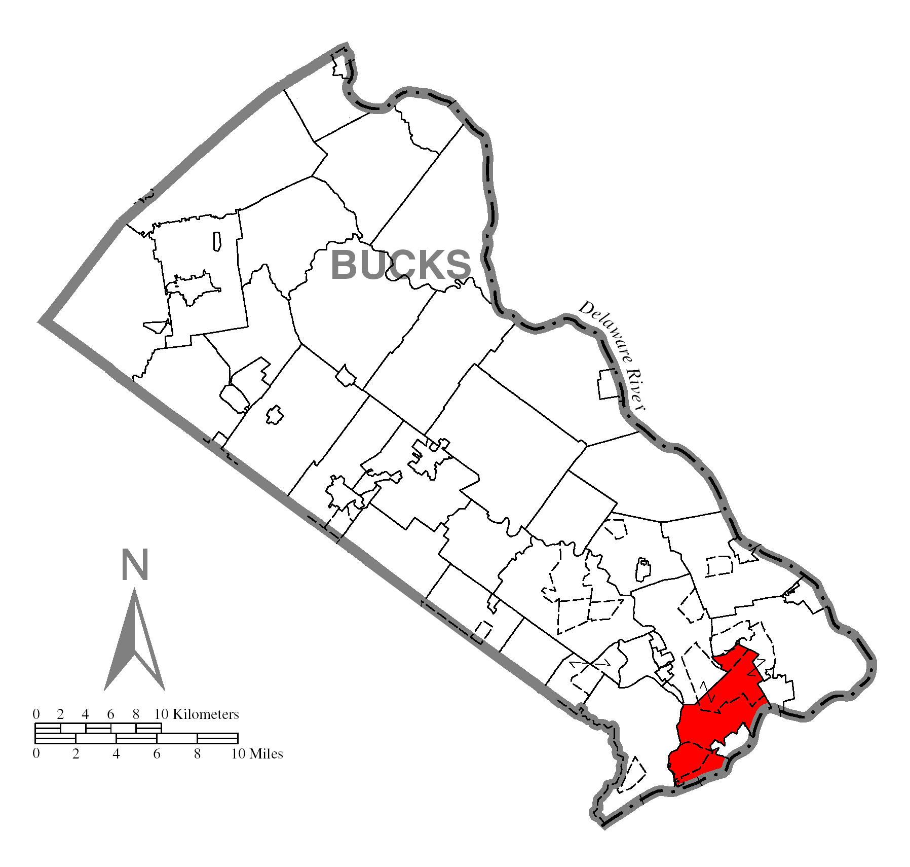 A map of Bucks County showing Bristol Township, Pennsylvania (alternate) highlighted on the map.